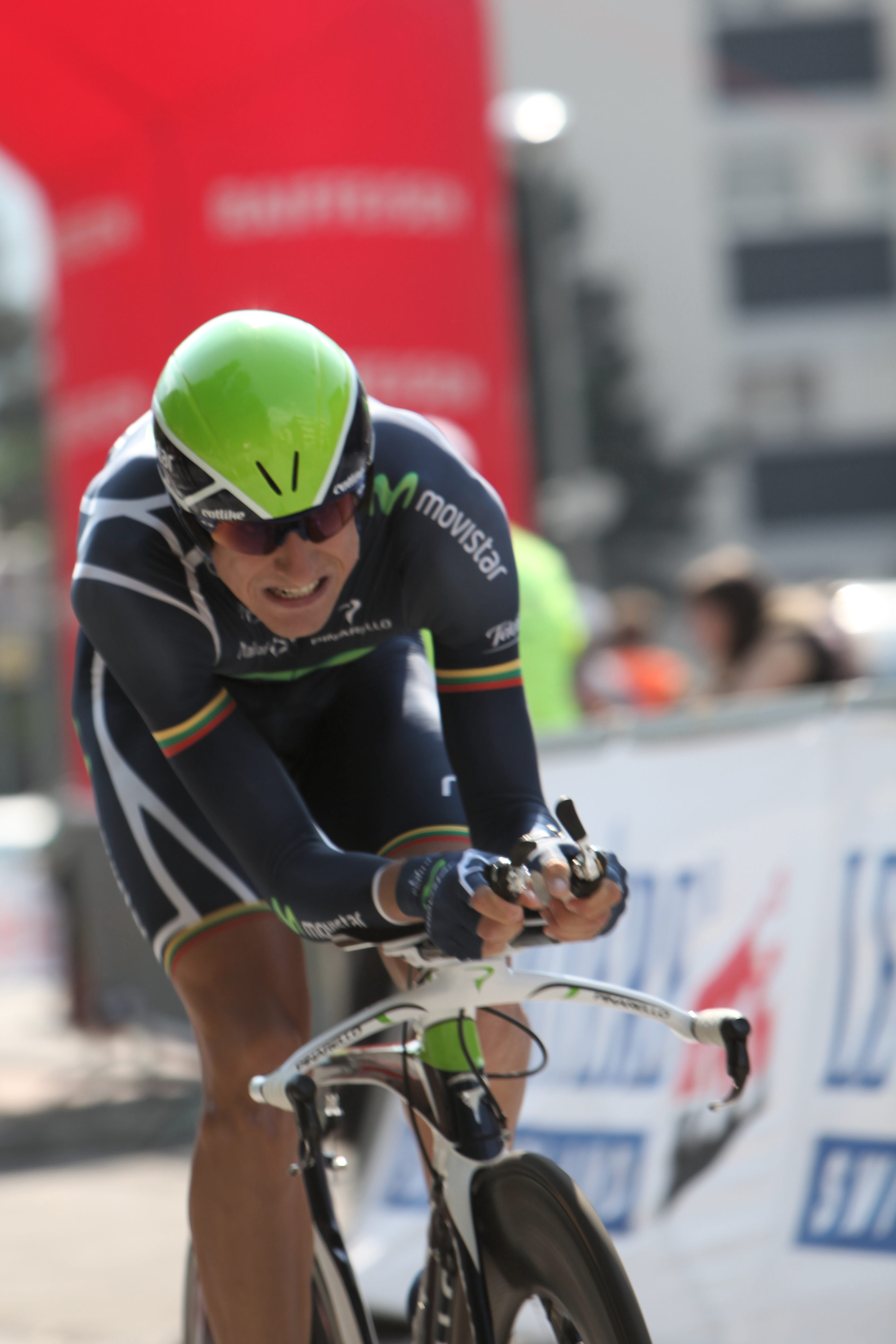 Ignatas Konovalovas at the prologue of the Tour de Romandie 2011